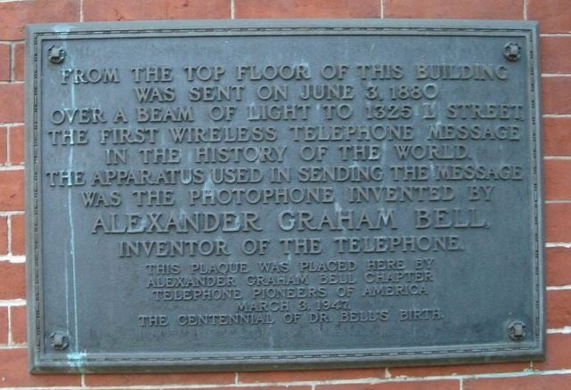 An image of a historical plaque on the wall of the Franklin School in Washington, D.C., at 13th & K Streets NW., which marks one of the two building rooftops used by Alexander Graham Bell and Charles Sumner Tainter to conduct the world's first wireless telecommunication. The plaque's text reads: FROM THE TOP FLOOR OF THIS BUILDING • WAS SENT ON JUNE 3, 1880 • OVER A BEAM OF LIGHT TO 1325 L STREET • THE FIRST WIRELESS TELEPHONE MESSAGE • IN THE HISTORY OF THE WORLD. • THE APPARATUS USED IN SENDING THE MESSAGE • WAS THE PHOTOPHONE INVENTED BY • ALEXANDER GRAHAM BELL • INVENTOR OF THE TELEPHONE • THIS PLAQUE WAS PLACED HERE BY • ALEXANDER GRAHAM BELL CHAPTER • TELEPHONE PIONEERS OF AMERICA • MARCH 3, 1947, • THE CENTENNIAL OF DR. BELL'S BIRTH Four patents were awarded for this technology and invention, which Bell described as his greatest achievement.